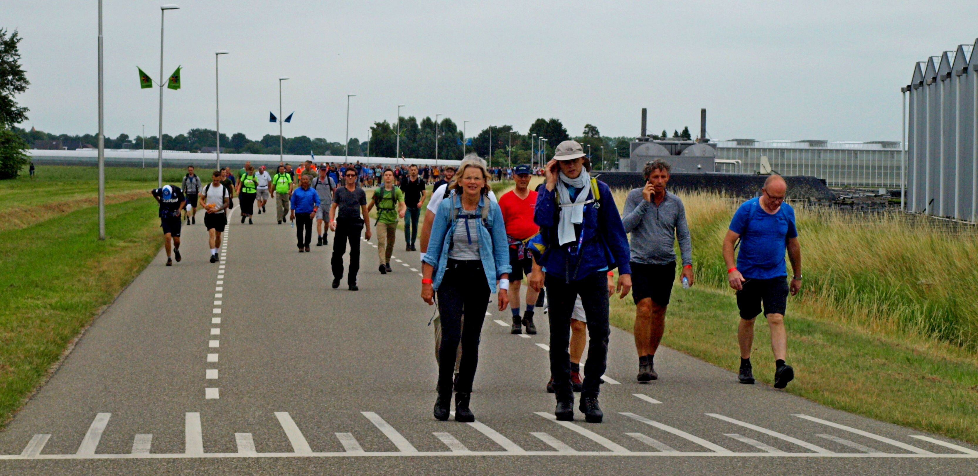 International Four Days Marches of Nijmegen 2019, first day, 50 km. walk on Bergerdensestraat, between Huissen and Bemmel.